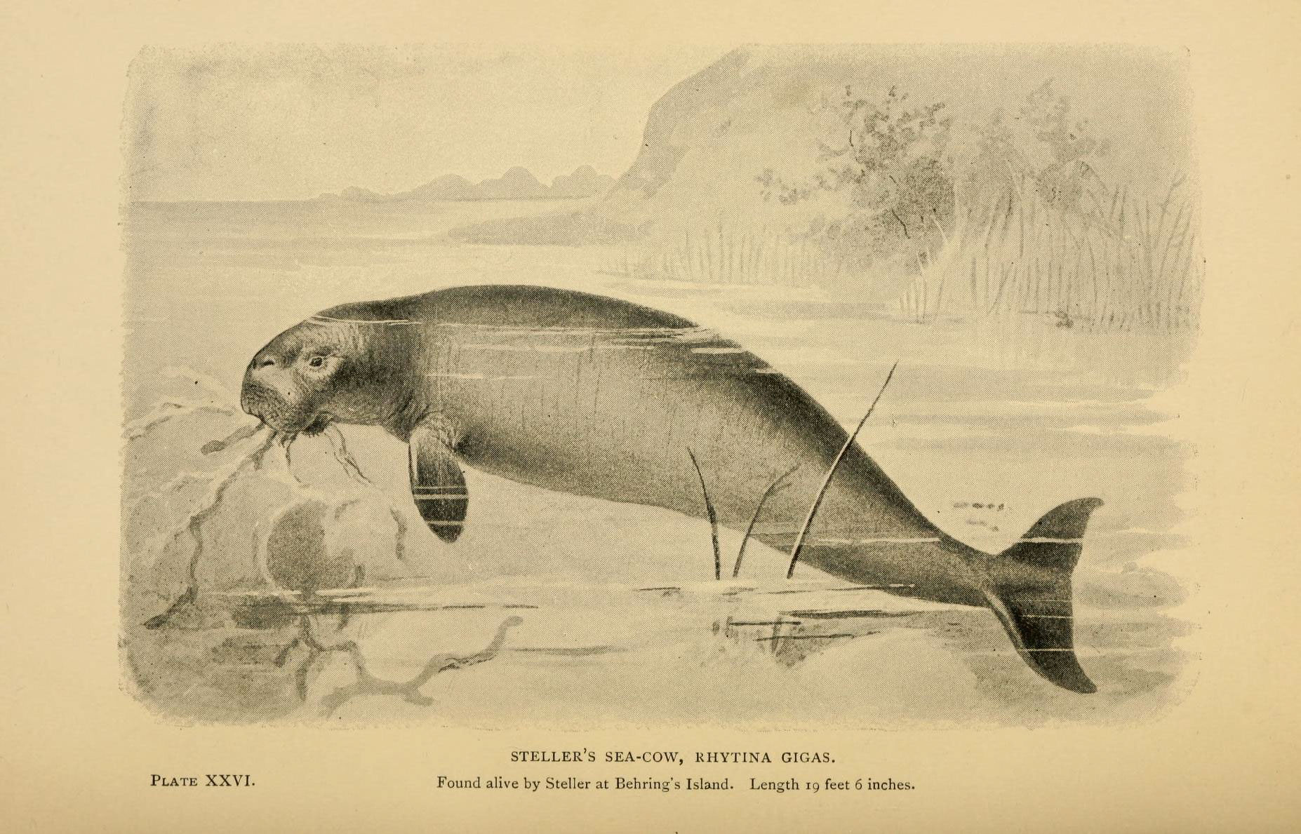 Extinct monsters London :Chapman & Hall,1896. Extinct Monsters London :Chapman & Hall,1896.